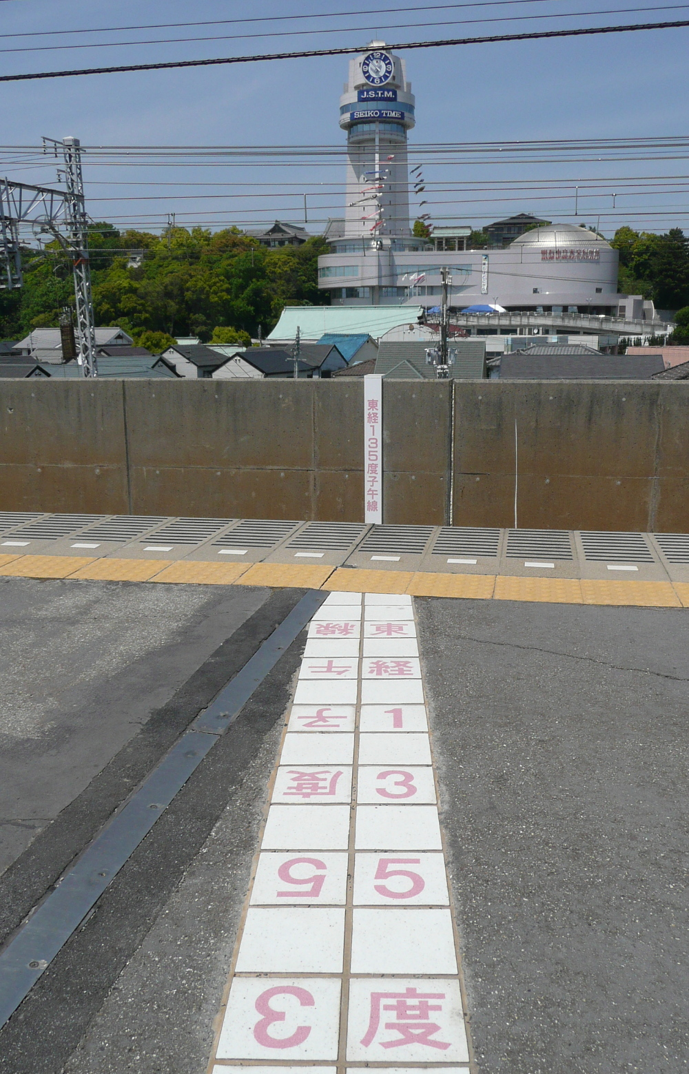 Sanyo Electric Railway,Hitomarumae Station platform. / 山陽電気鉄道人丸前駅ホームの東経135度線と明石市立天文科学館